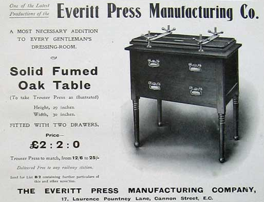 Advertising for an Everitt trouser press